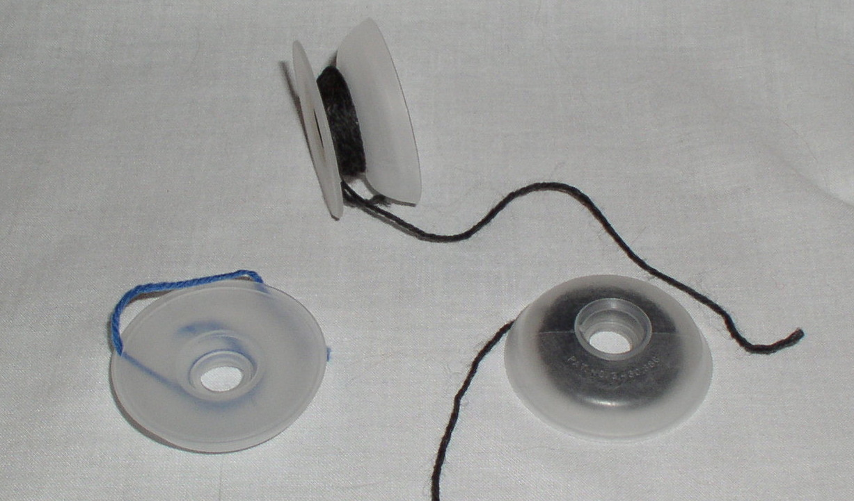 Three bobbins of the sort used for intarsia and other knitting techniques. Taken by me in late August 2005.